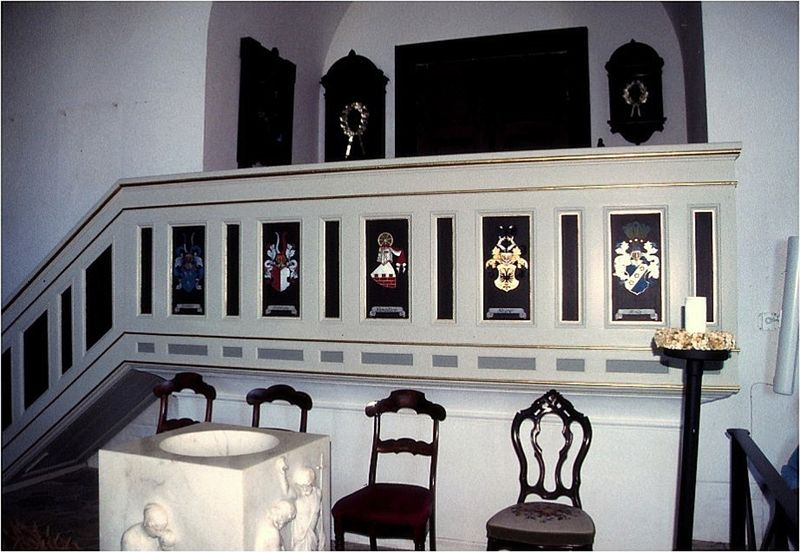 Brahetrolleborg Church in Faaborg-Midtfyn Kommune from apr. 1200